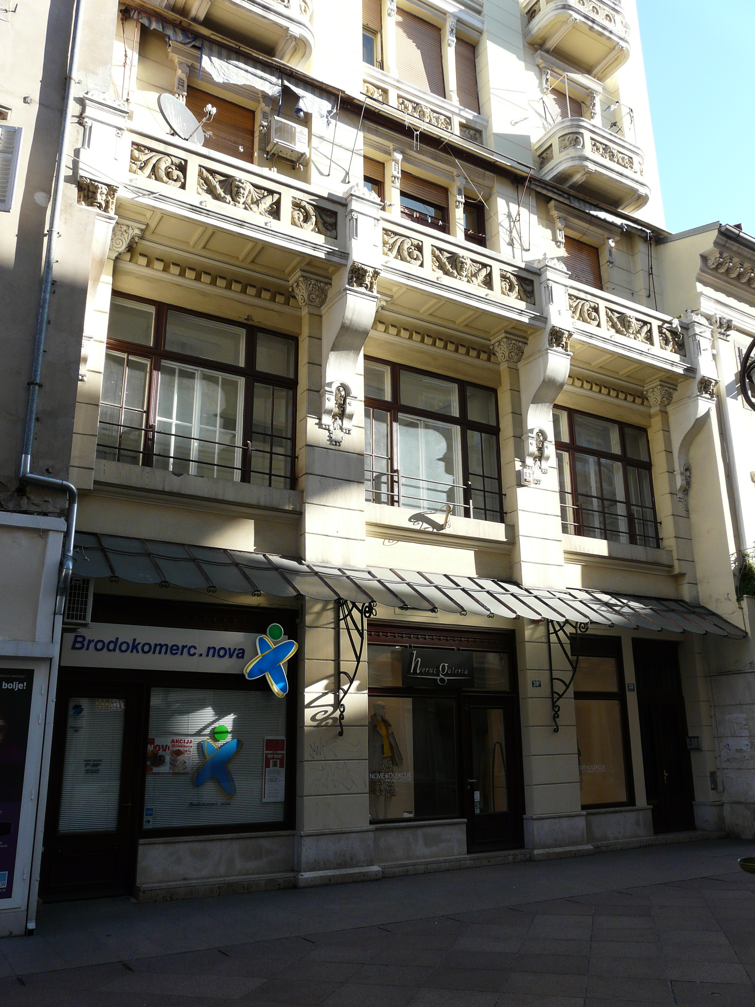 Lower part of Mattiassi House on Korzo str No 38, RIjeka, Croatoa